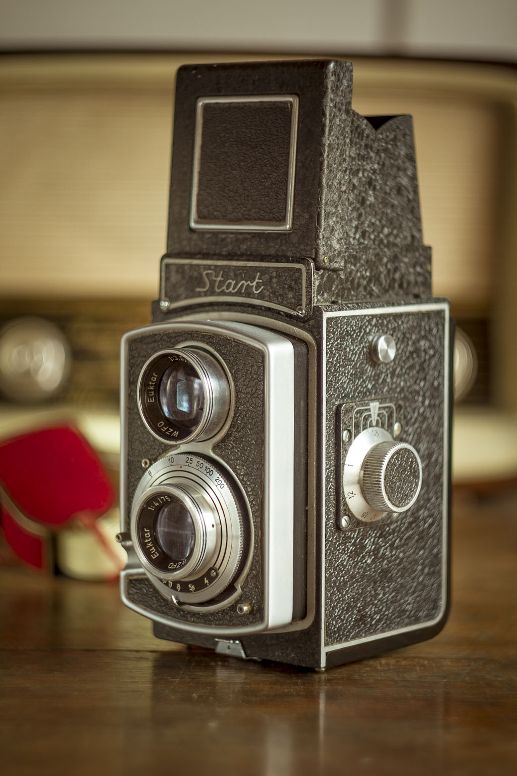 Start I - Polish two lens camera